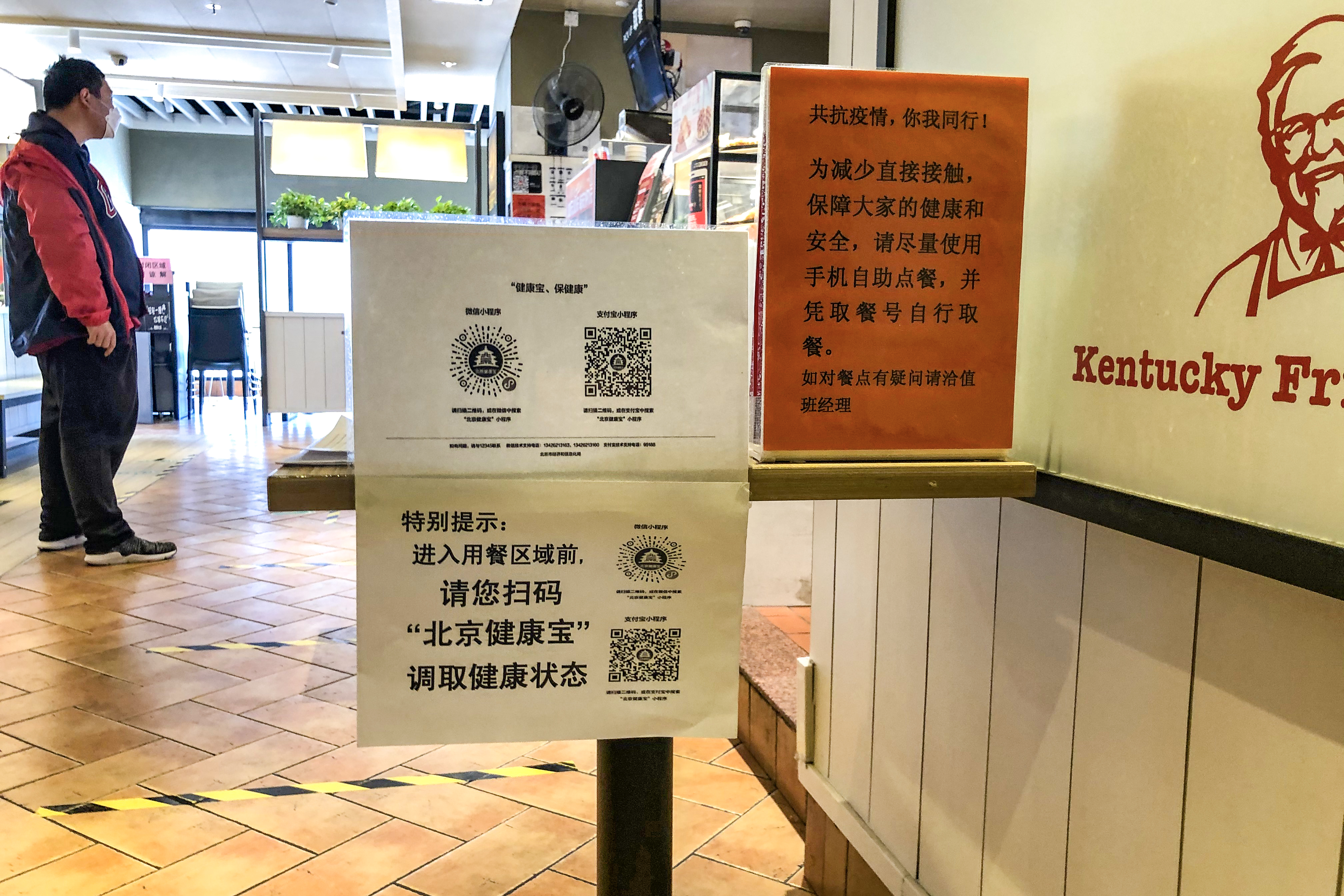 When entering, staff will check the status of Beijing Health Kit (北京健康宝) gadget on WeChat or Alipay, and the temperature.